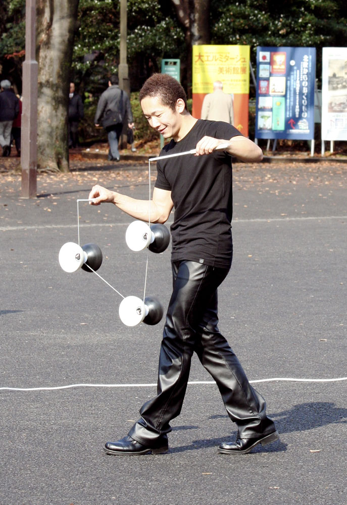 Diabolo juggler in Ueno Park.